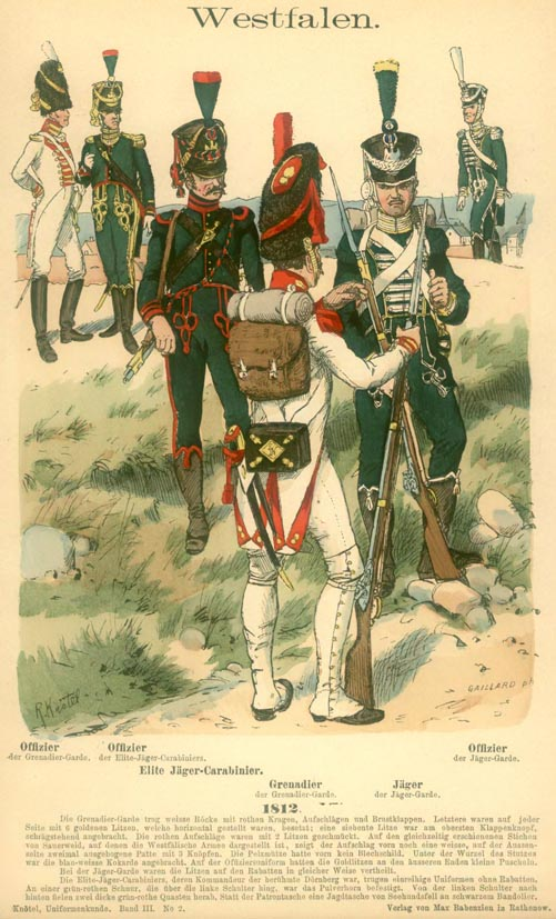 Westfalen. Garde-Infanterie. 1812